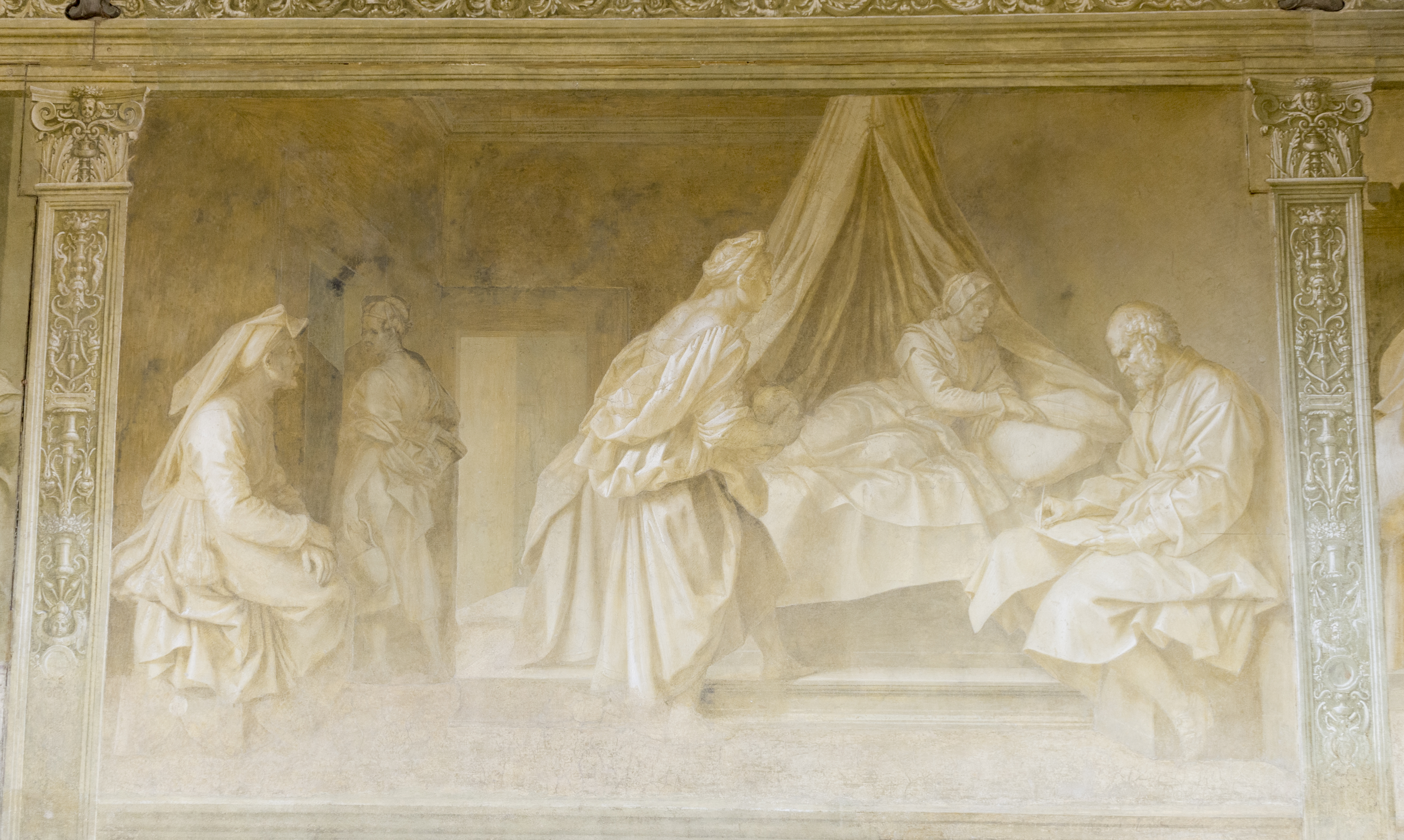 "Birth of the Baptist", by Andrea del Sarto